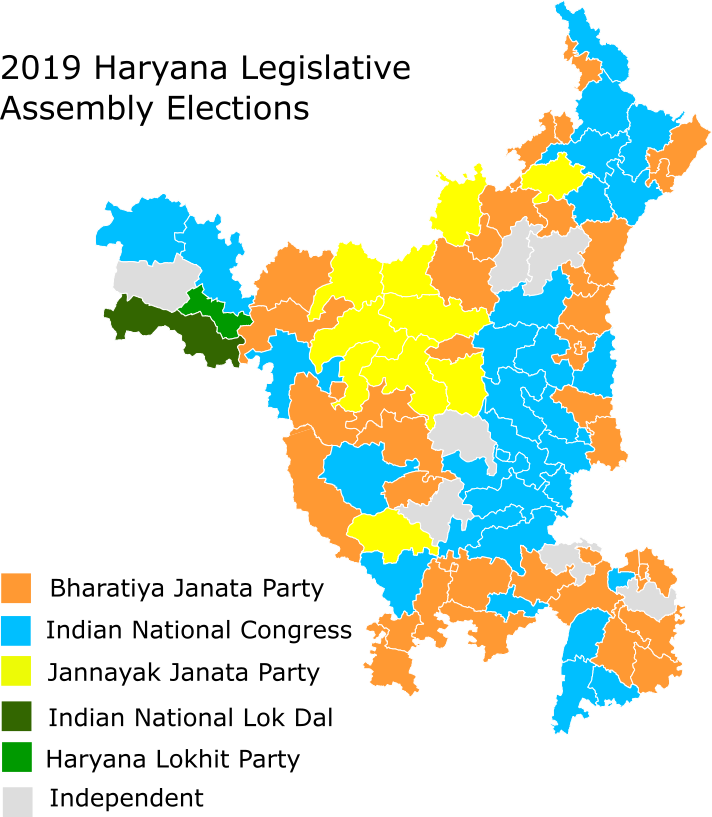 Result of Haryana Legislative Assembly election 2019